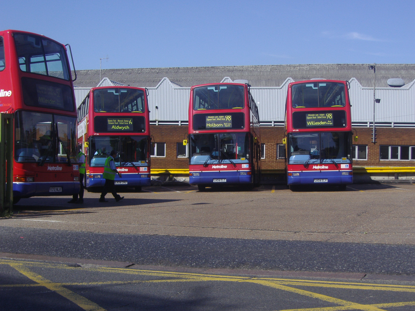 Four Plaxton President bodied Volvo B7TLs of Metroline, seen at their Willesden garage. On the left is a VPL class, VPL172 (Y172 NLK), while the back three are VP class - VP516/66/70 (LK04 CRU/LK04 ELC/LK04 ELV)